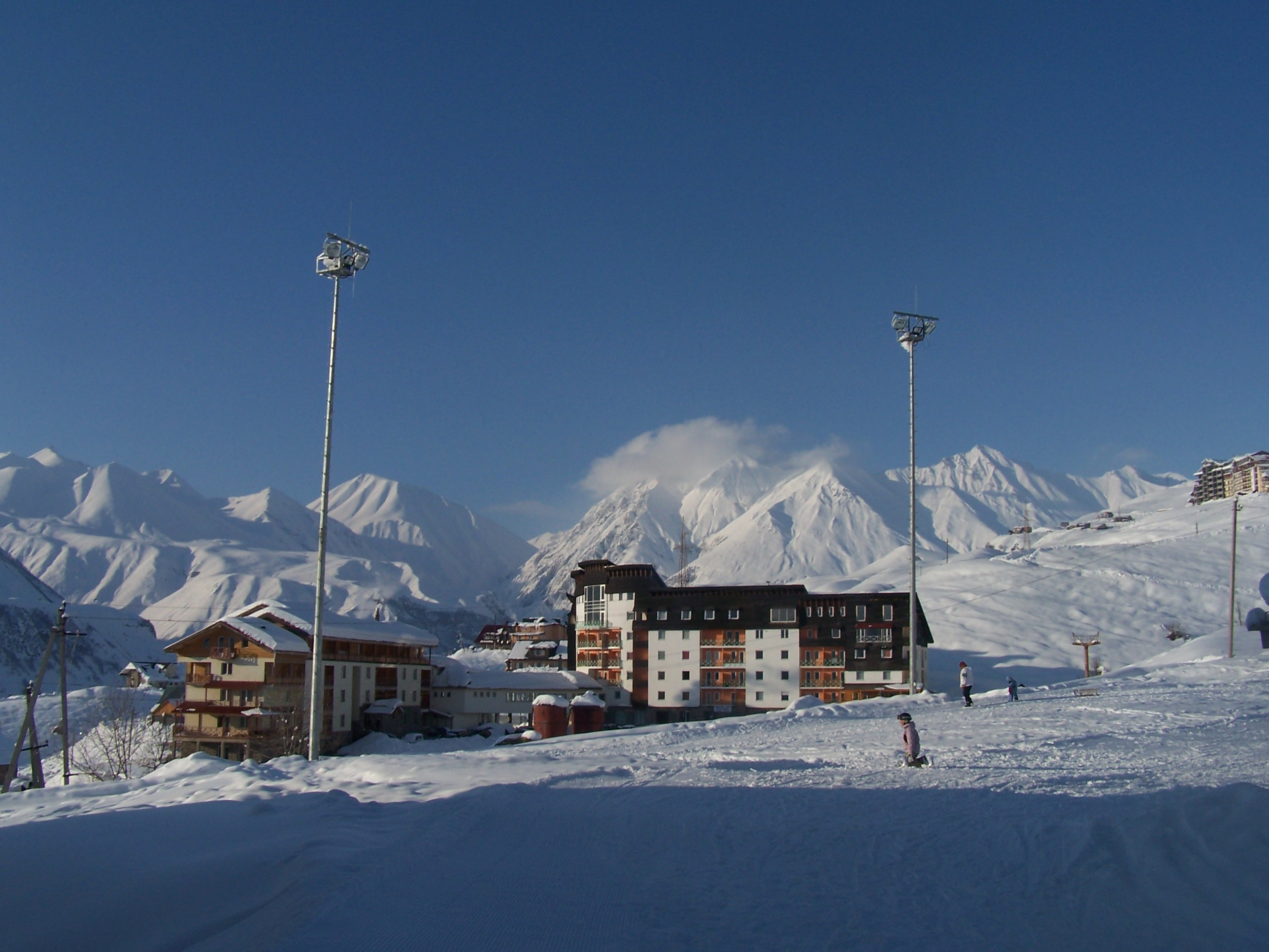 Gudauri